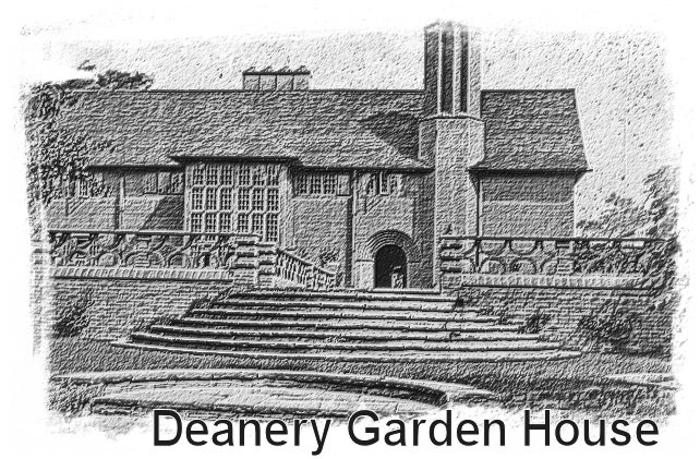 Deanery Garden House Brookie's own picture This is a modified copyright Country Life picture - is that permitted? (and its caption should be "Deanery Garden" not "Deanery Garden House")